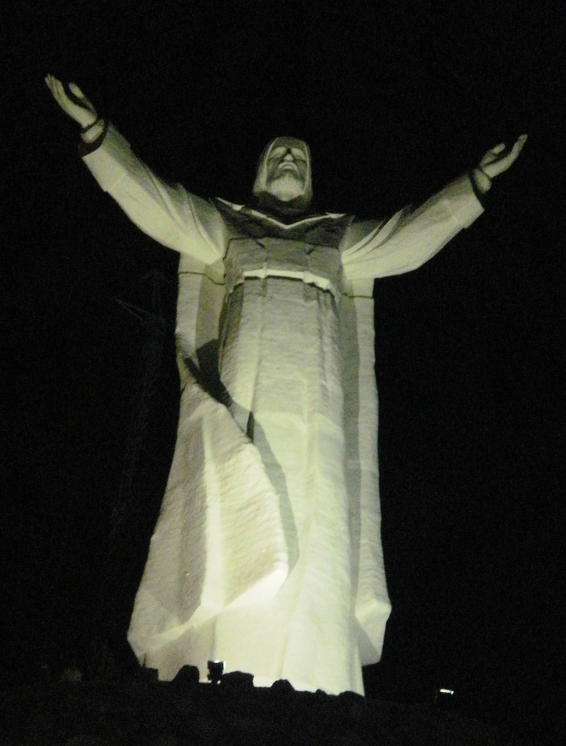 Nighttime image of open-air Christ the King (statue) in Świebodzin, Poland.